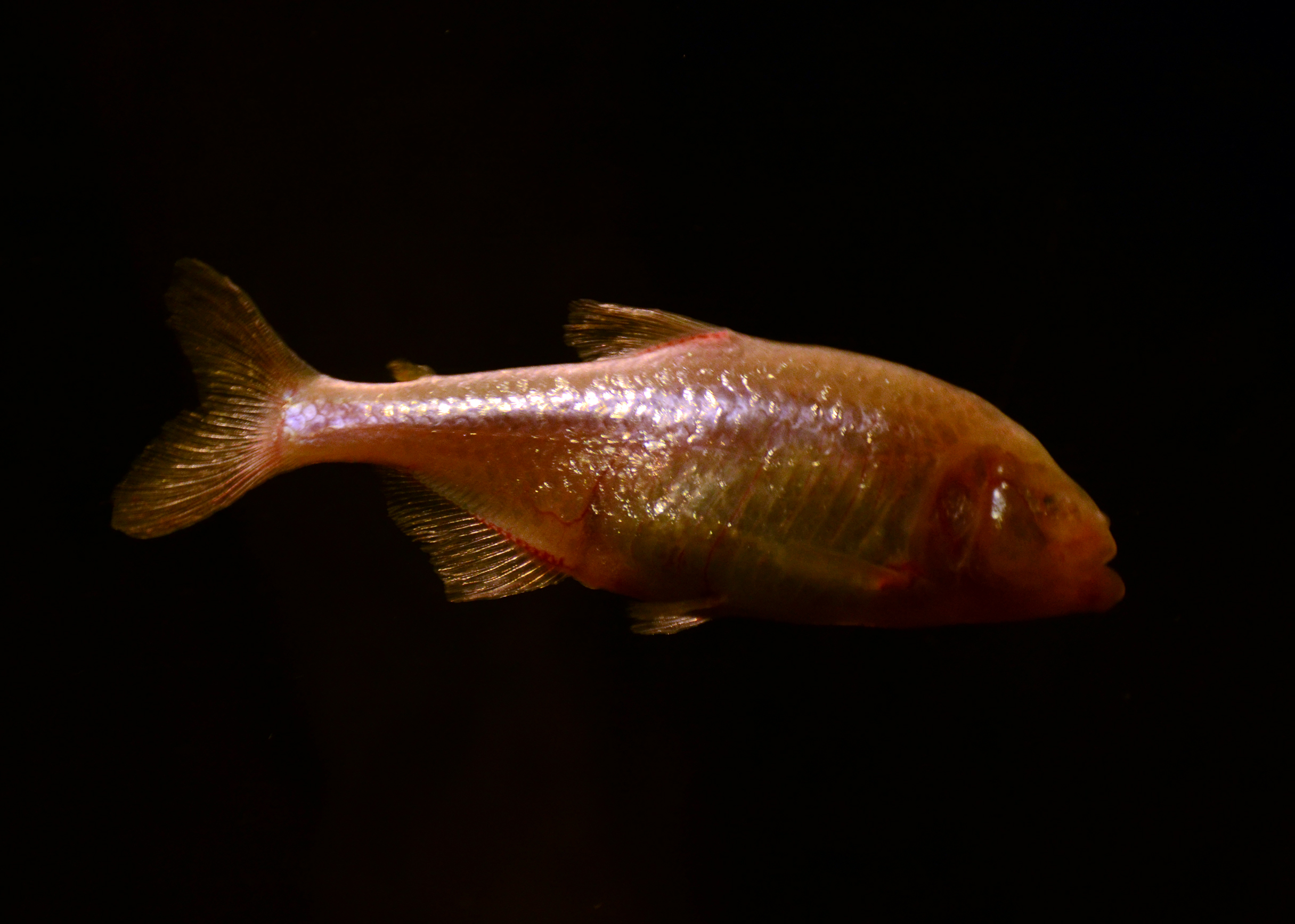 Blind cave characin ( Astyanax jordani ), in the Aquarium Dubuisson, in Liège.